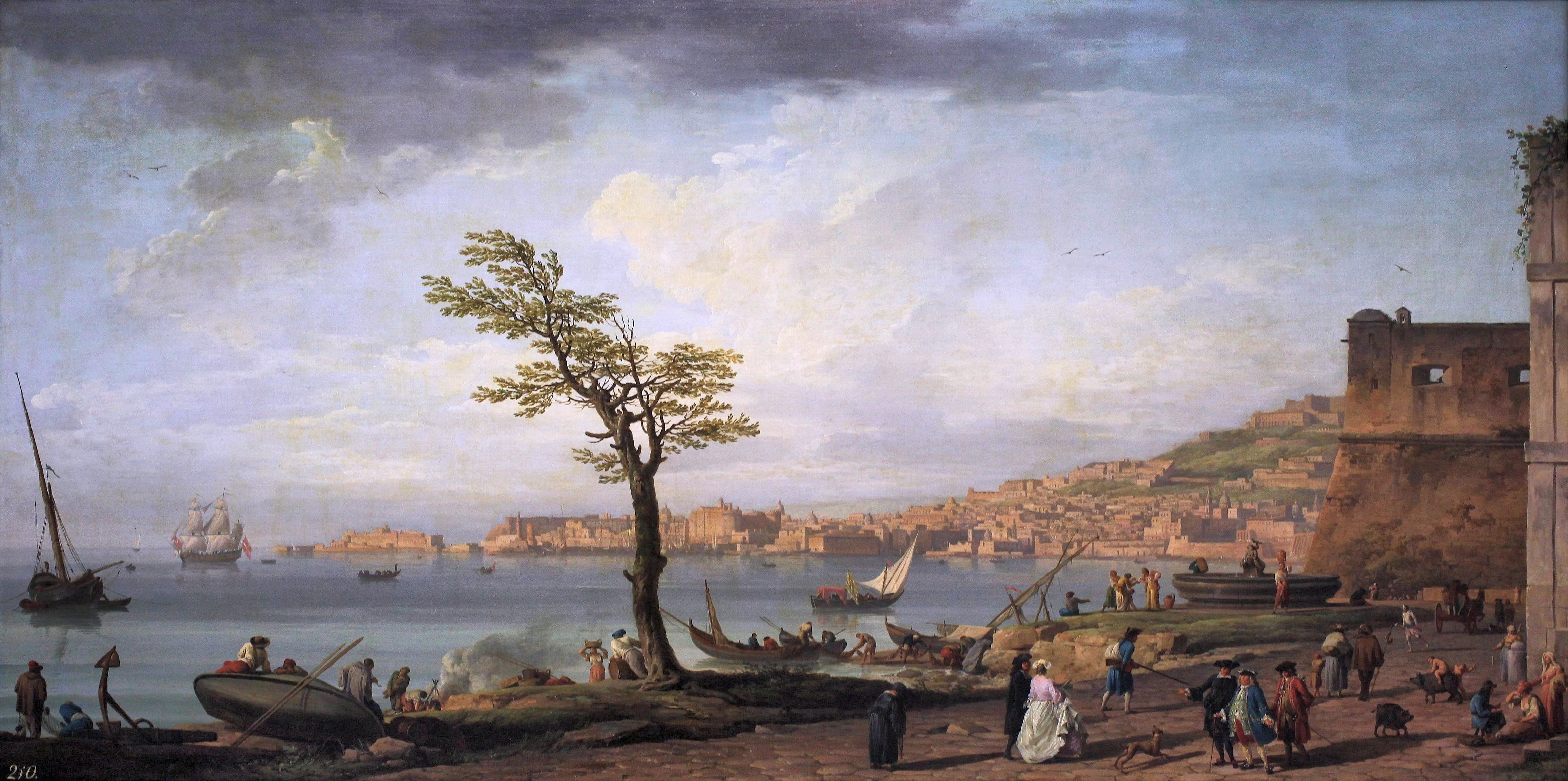 Depicted place: (Gulf of Naples) (40°44′19″N 14°18′05″E / 40.738673°N 14.301453°E)